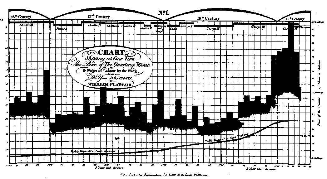 Chart: Showing at One View the Price of the Quarter of Wheat, and Wages of Labour by the Week, from 1565 to 1821